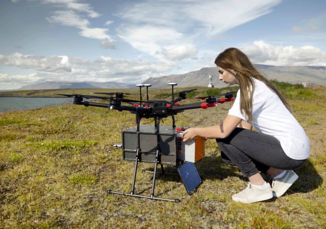 Woman unloading package off a Flytrex delivery drone in Reykjavik, Iceland